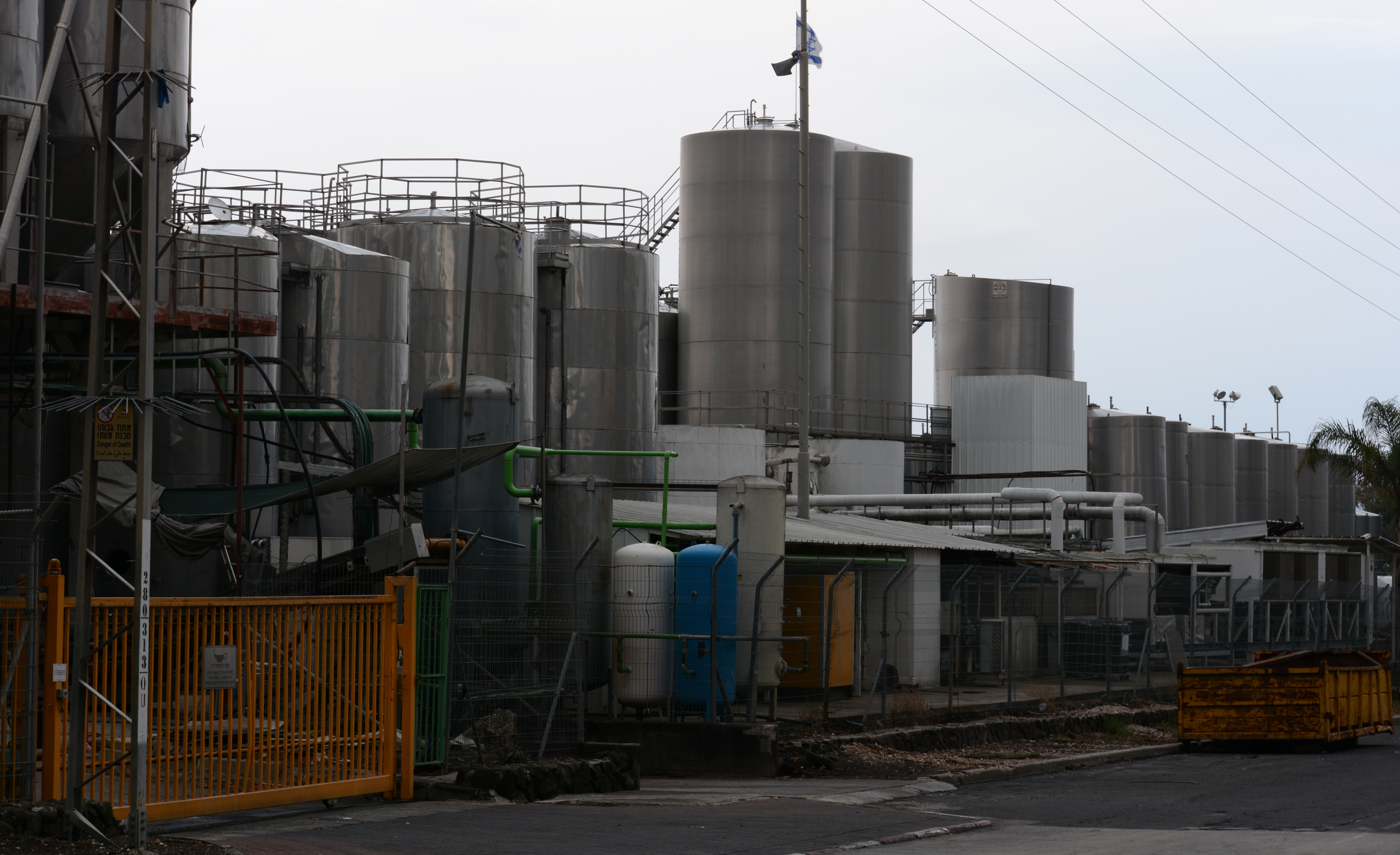 Golan Heights Winery. Katzrin. Israel.